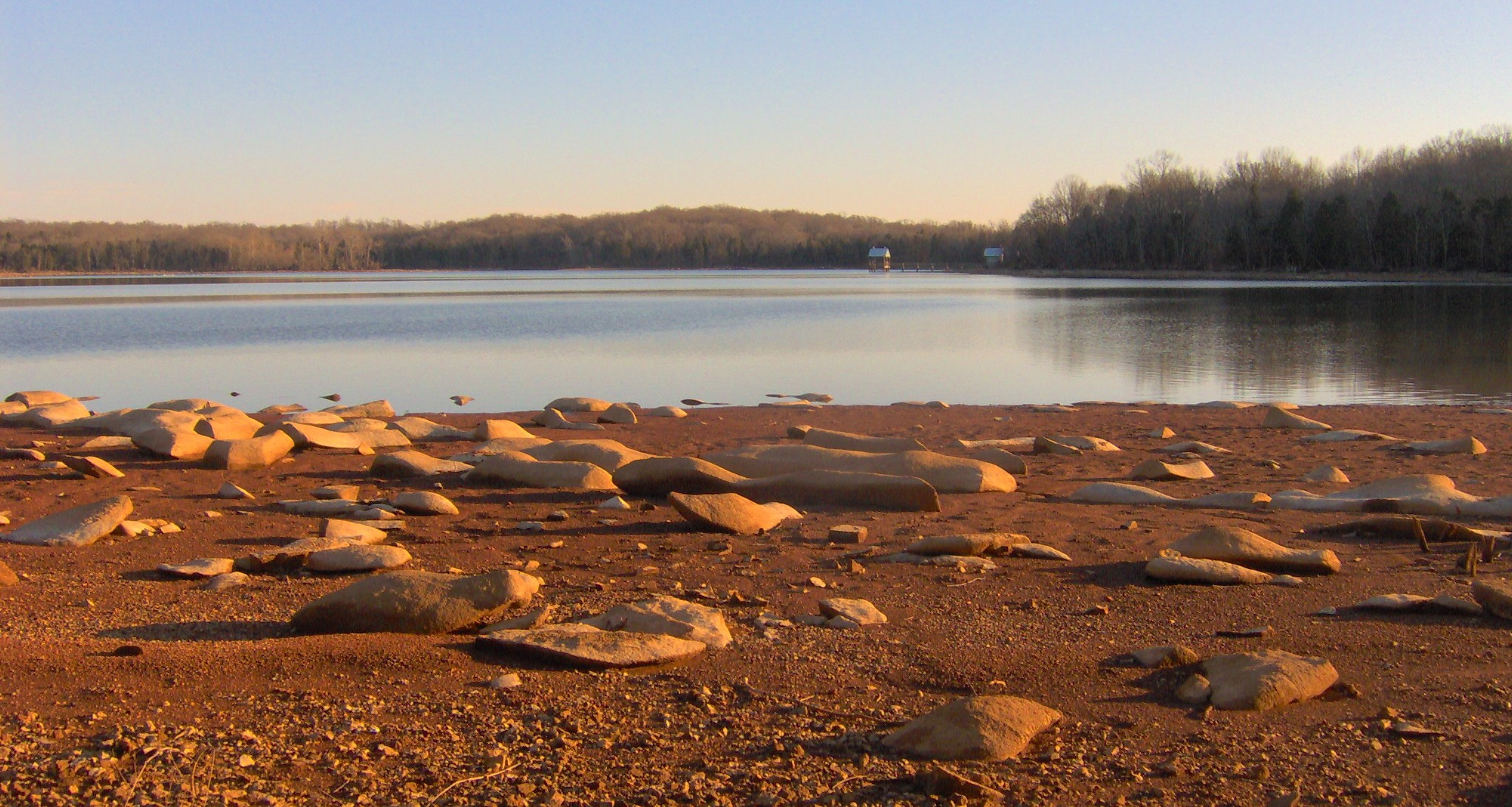 Couchville Lake at Long Hunter State Park near Nashville, Tennessee, located in the southeastern United States. This point can be accessed from the Couchville Lake Trail, which circles the lake.